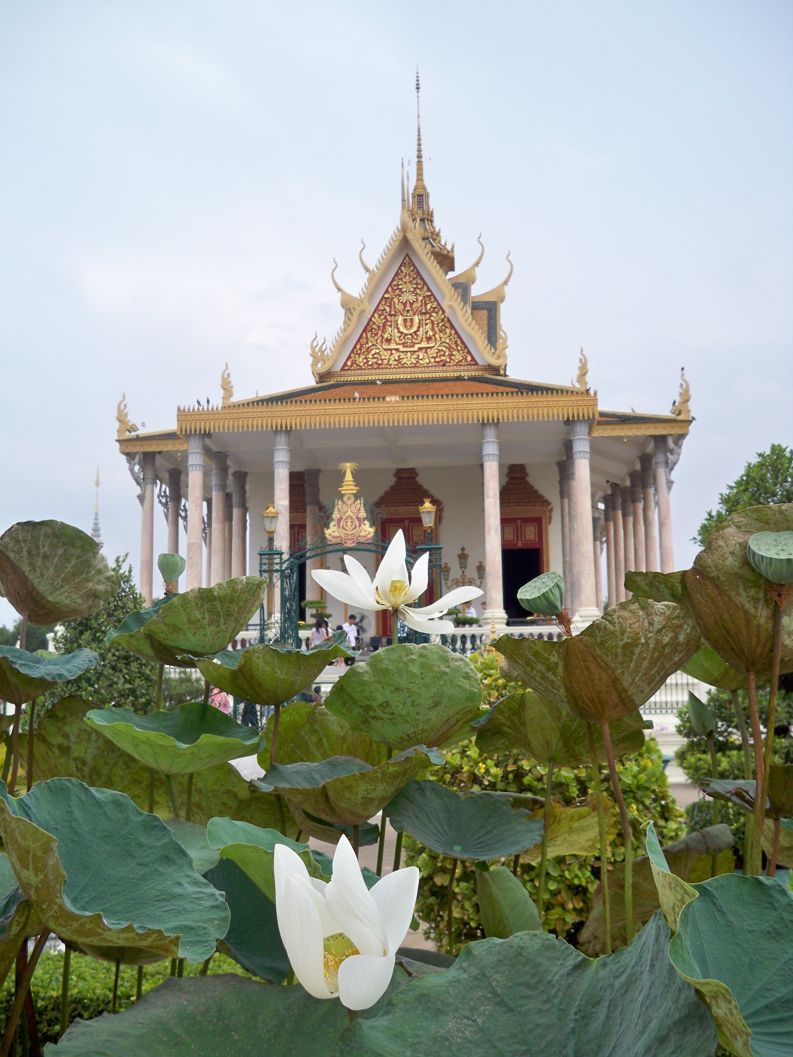 Sliver pagoda